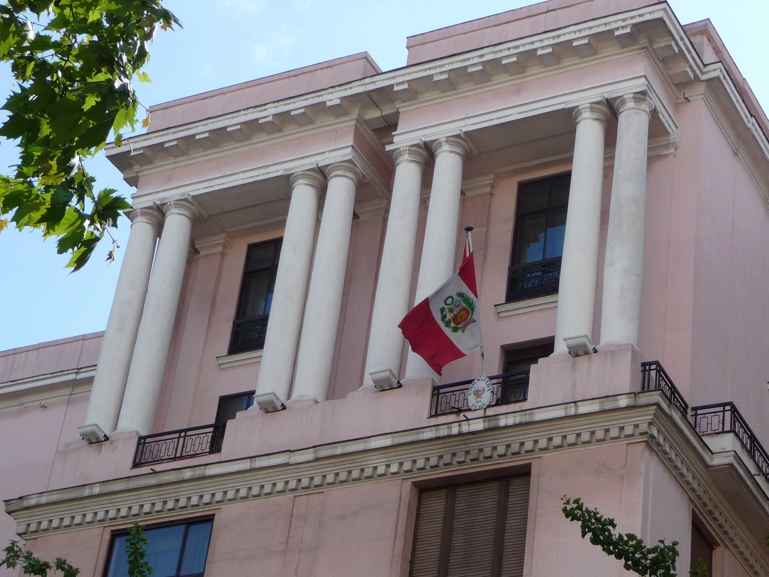 Embassy of Peru in Madrid